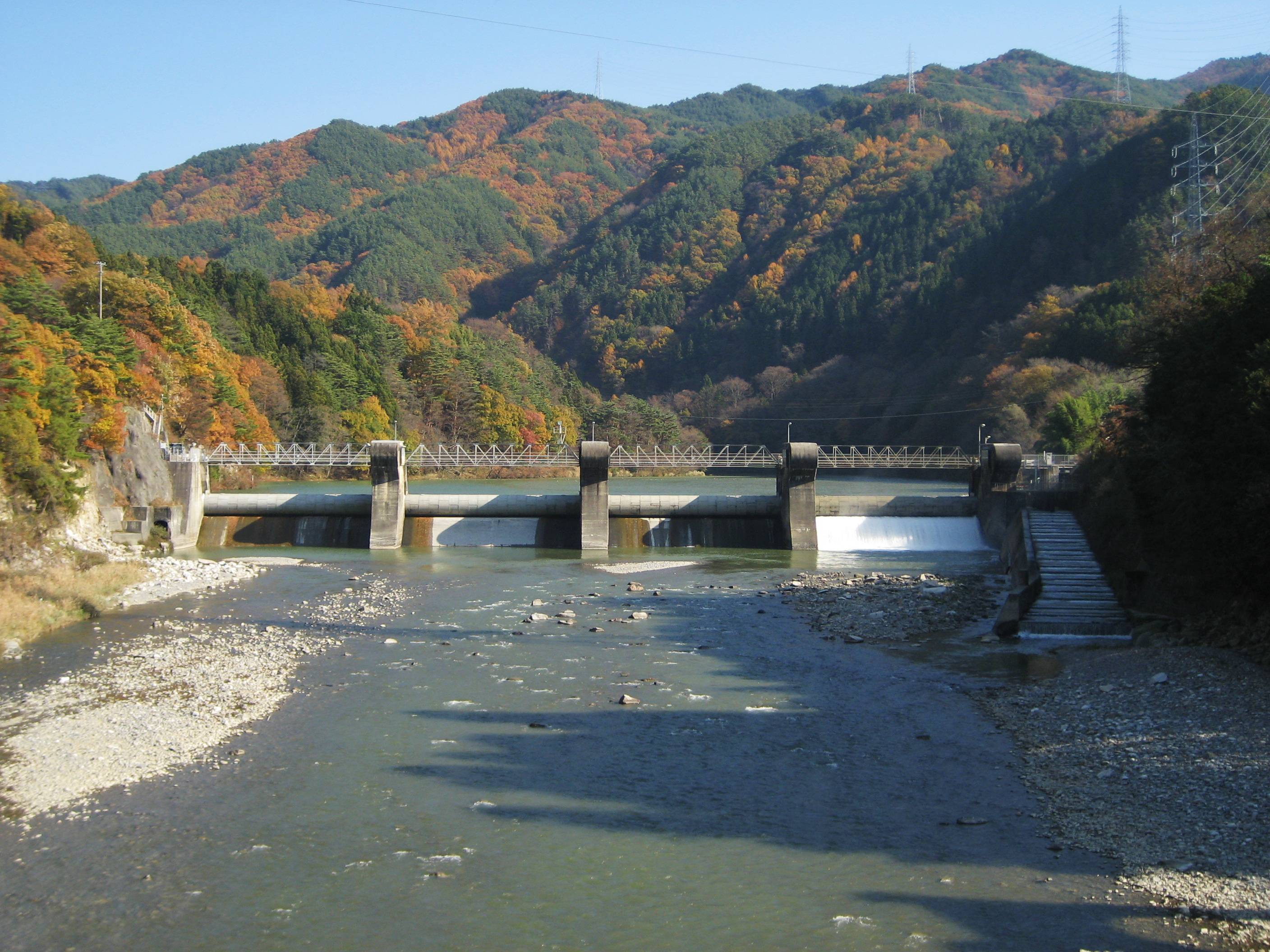 Minakata Dam.